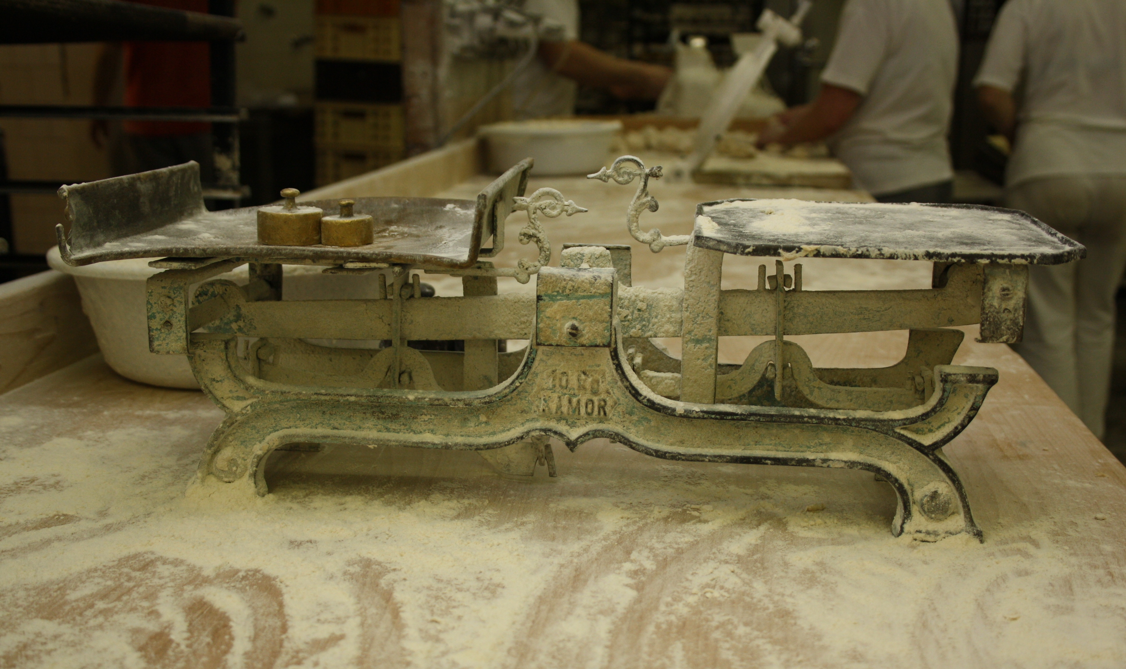 Scales for weighing dough in Czech Republic This photograph was taken with a DSLR from WMCZ's Camera grant. This picture was taken and/or got within the scope of the 'Acquiring scientific and specialized pictures' grant.